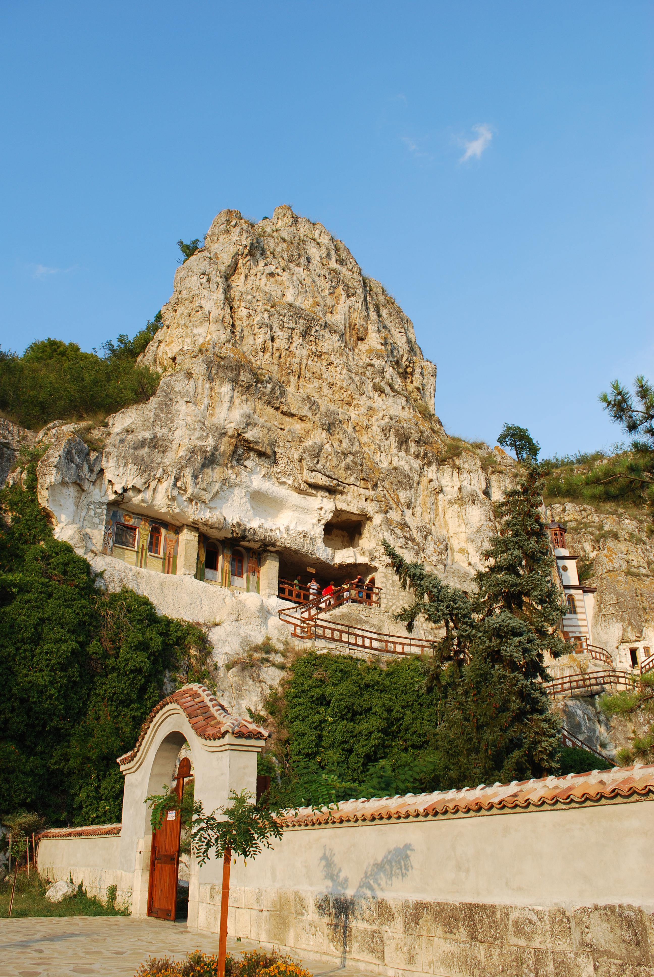 Dimitri Basarbov rock monastery in Basarbovo, Bulgaria